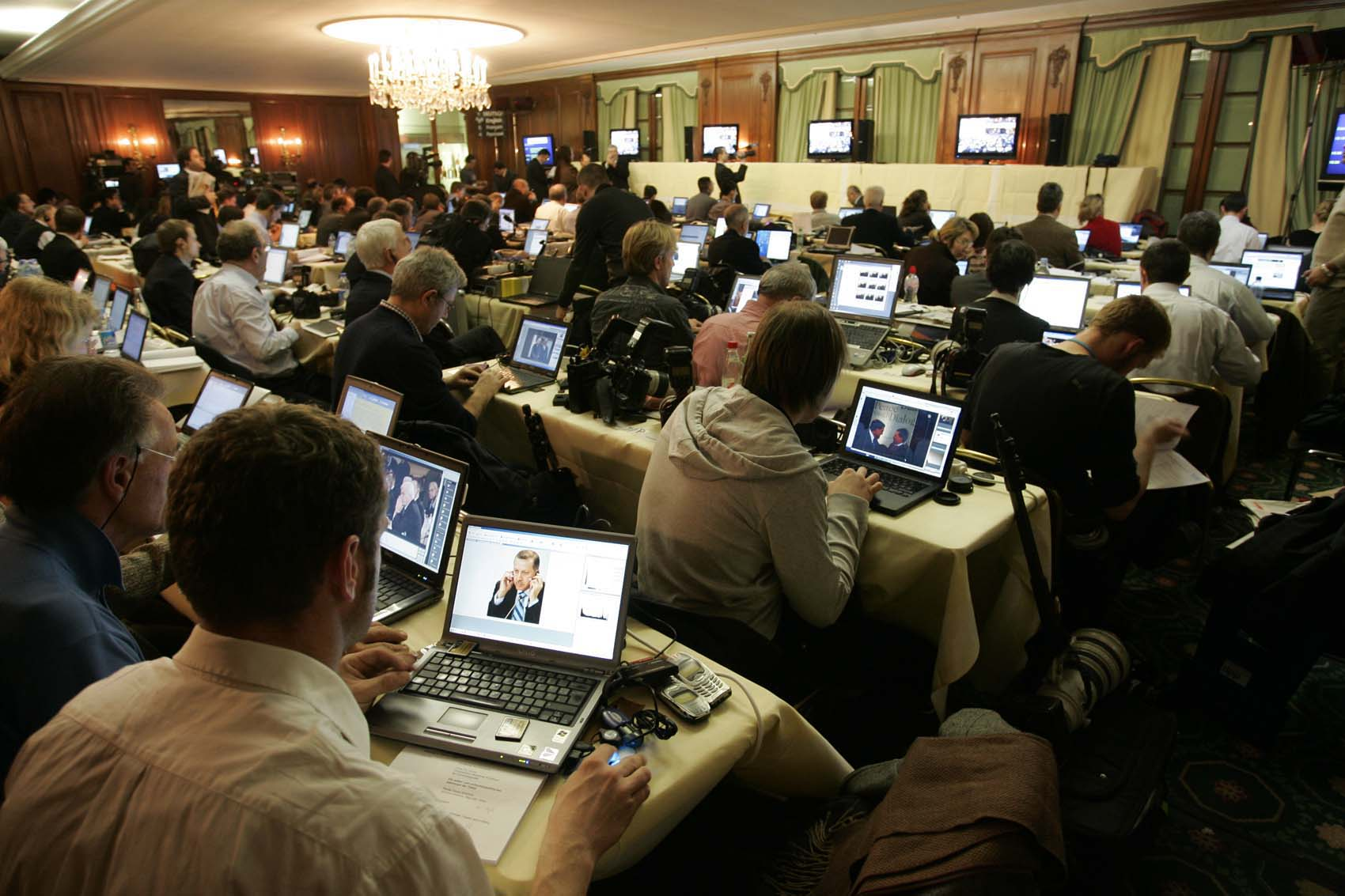 44th Munich Security Conference 2008: Impressions from the Presscenter.